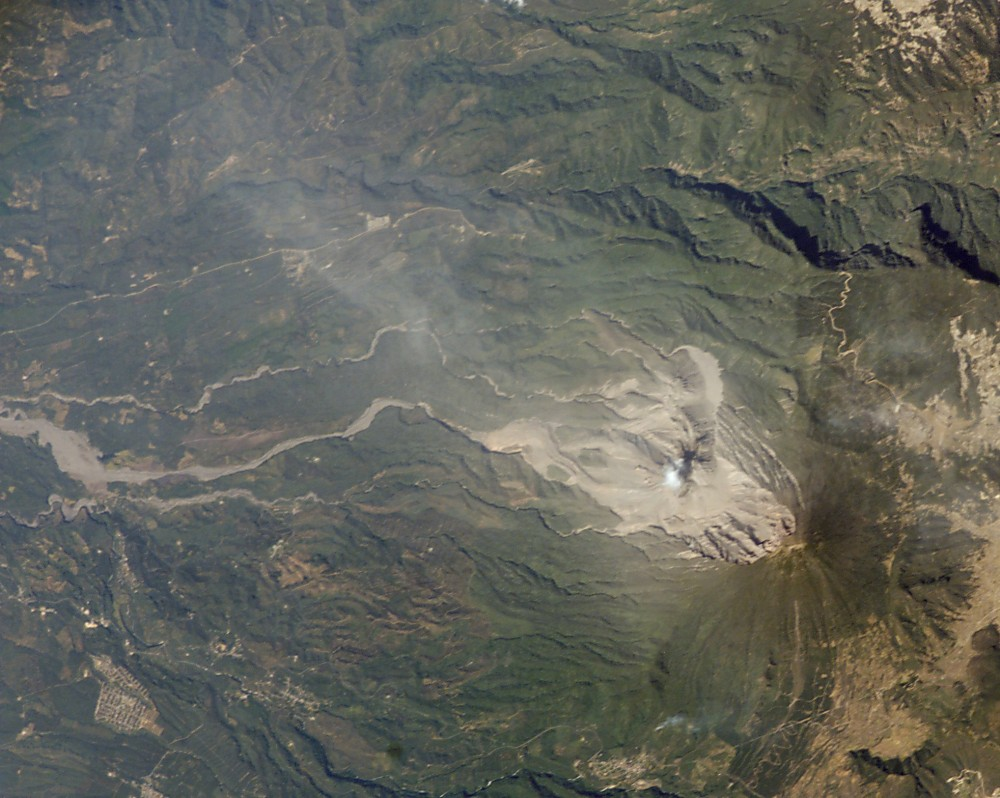 Santamaria volcano as seen from the International Space Station.